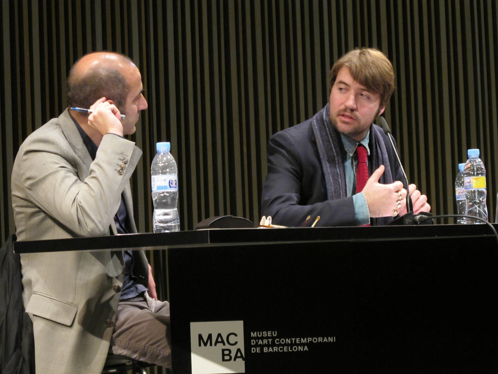 Carles Guerra and Albert during a Conference at MACBA Barcelona about Aleksandr Sokurov, 2012